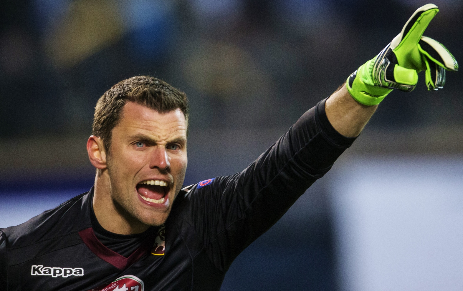 Daniele Padelli